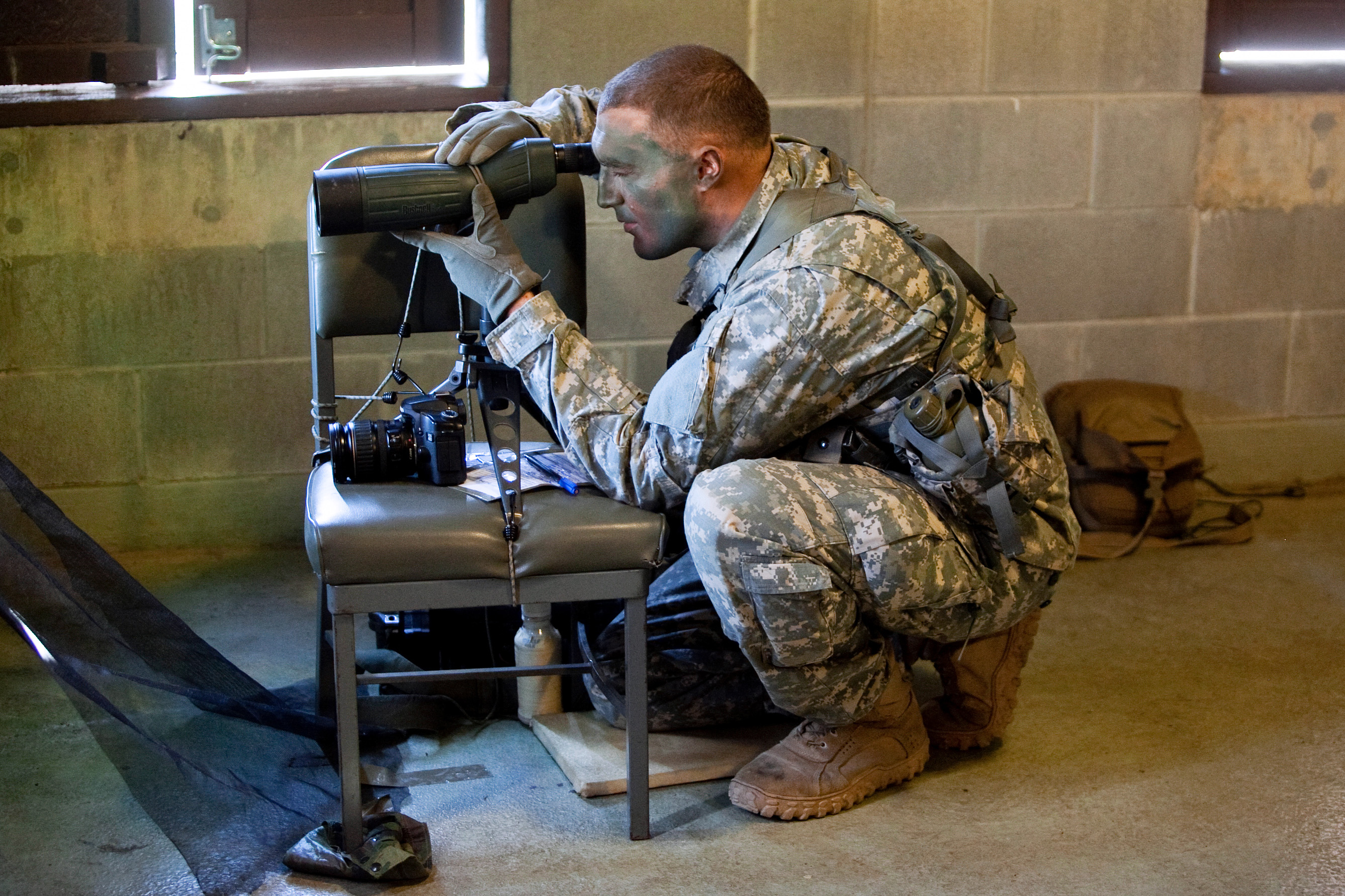 U.S. Army Reconnaissance and Surveillance Leaders Course student uses an optical range finder to observe an urban environment during phase two of the course.